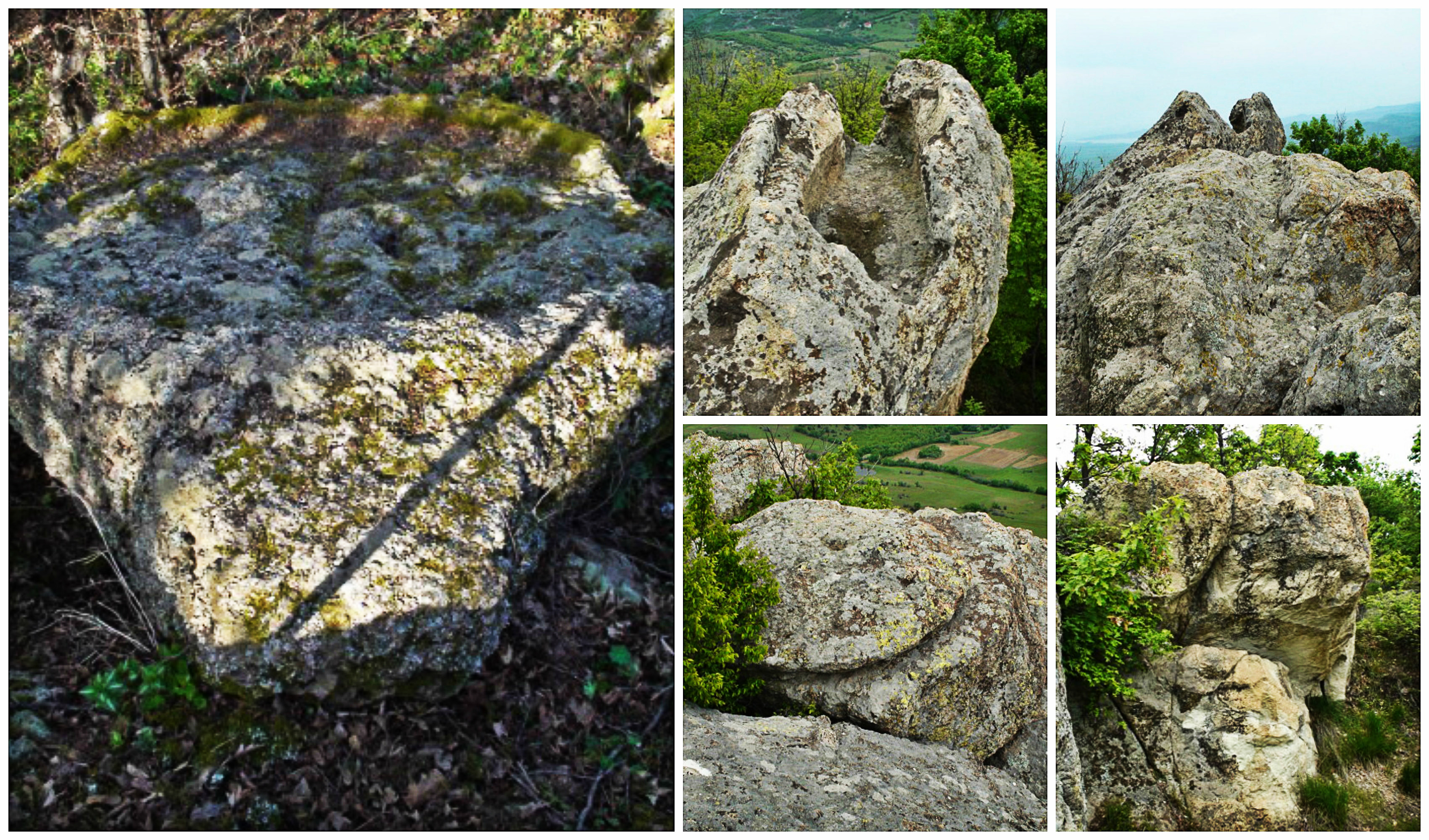 Sanctuary complex Angel Voivoda Bulgaria 03